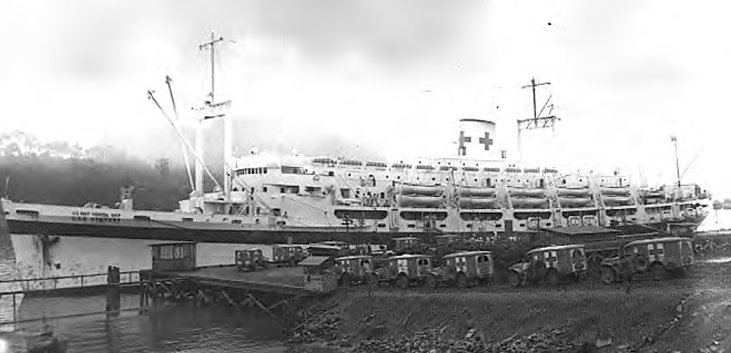 The U.S. Navy hospital ship USS Comfort (AH-6) arrives at Hollandia, New Guinea, on 6 February 1945.